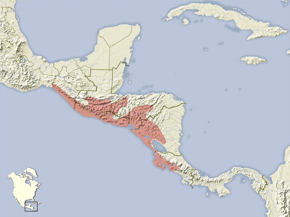 Distribution map of Salvin's spiny pocket mouse